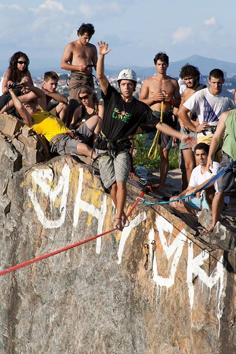 Praticante de Highline em performance no Espaço Recanto Azul